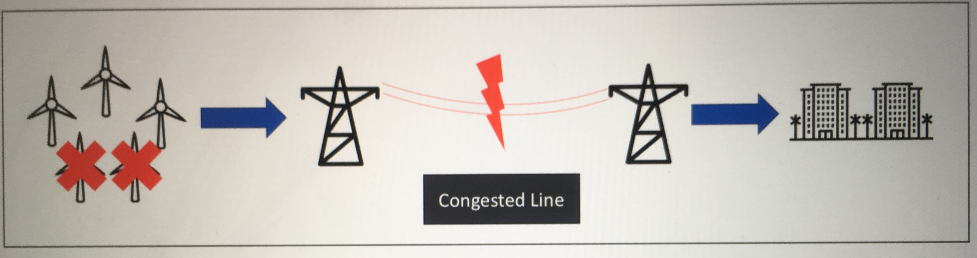 Local flexibility markets (Germany): Regional congestions due to high energy feed-in